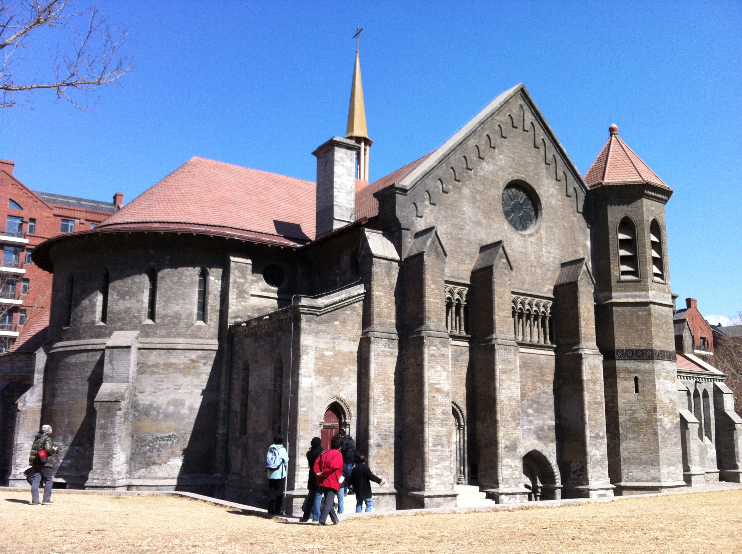 Episcopal Church in Zhejiang Lu No. 2, Heping District, Tianjin